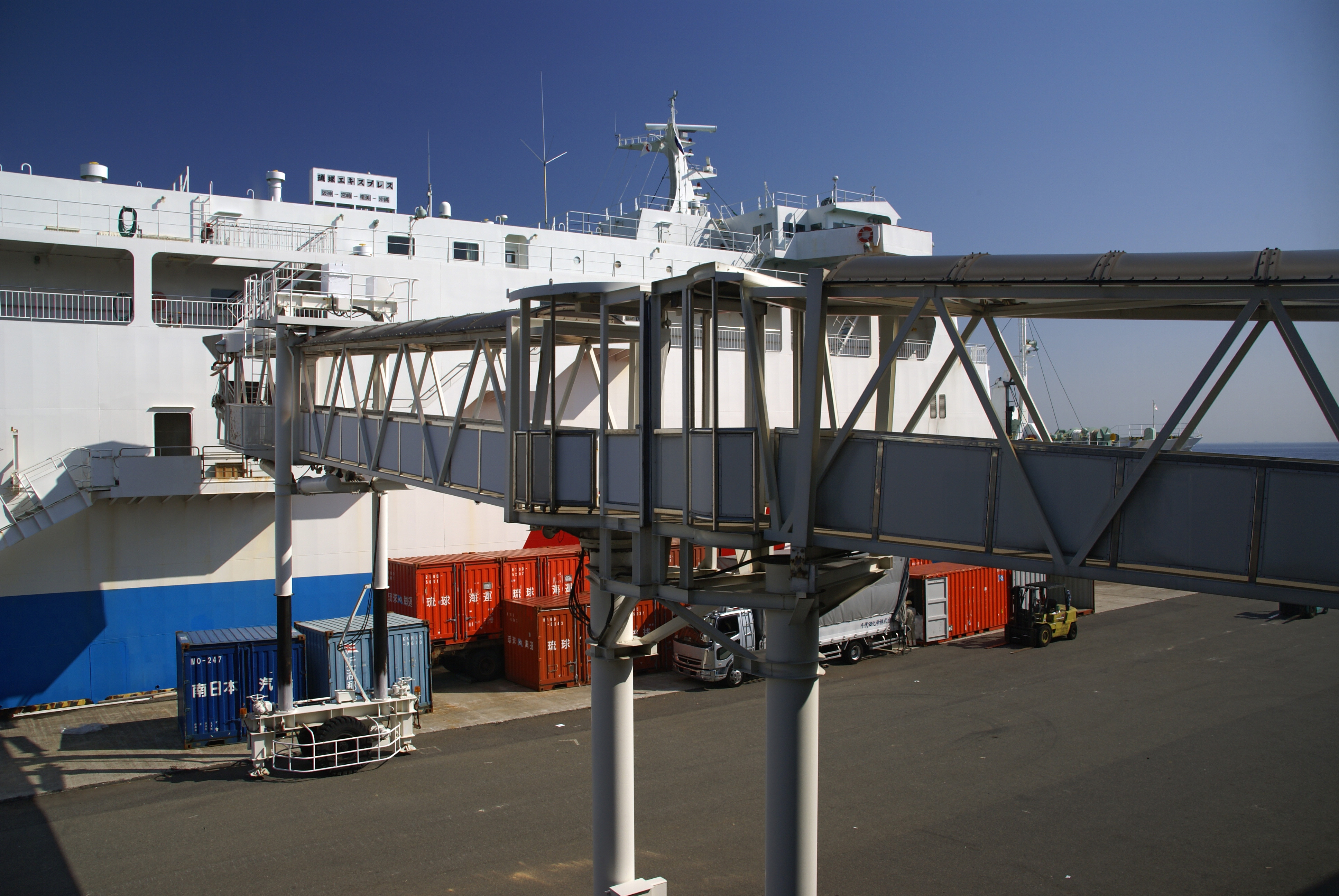 "Ryukyu Express" at Rokko Passenger Ship Terminal of the Kobe harbor ( Kobe, Hyogo, Japan )